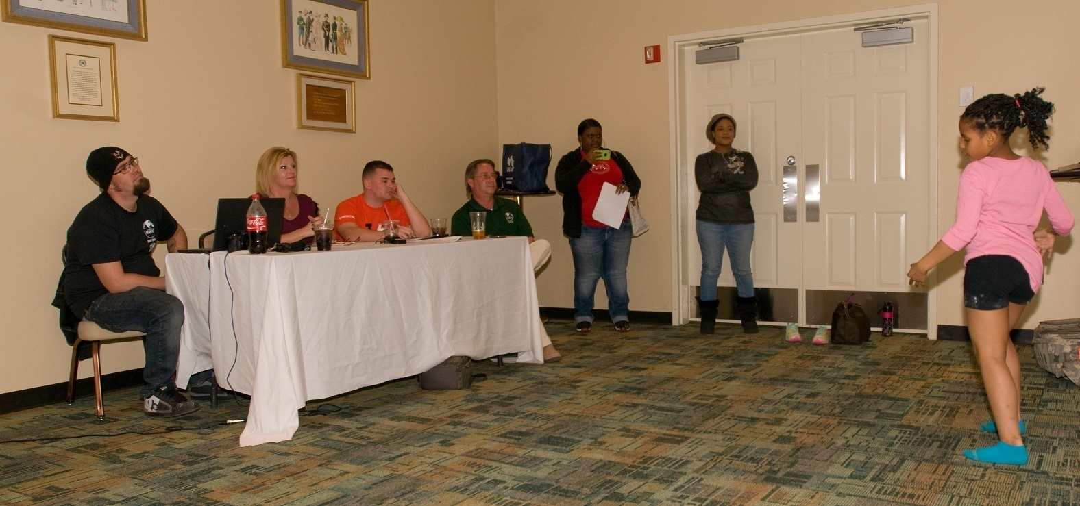 Octavia Wagner, age 9, a student at Fort Bliss Elementary School, dances for the judges during an audition for Jr. Fort Bliss’ Got Talent at the Centennial Club on Fort Bliss, Texas, Jan. 28, 2015. The youth competition is scheduled for Feb. 19 and 26 at the Centennial Club. (U.S. Army photo by Sgt. Jarred Woods, 16th Mobile Public Affairs Detachment)